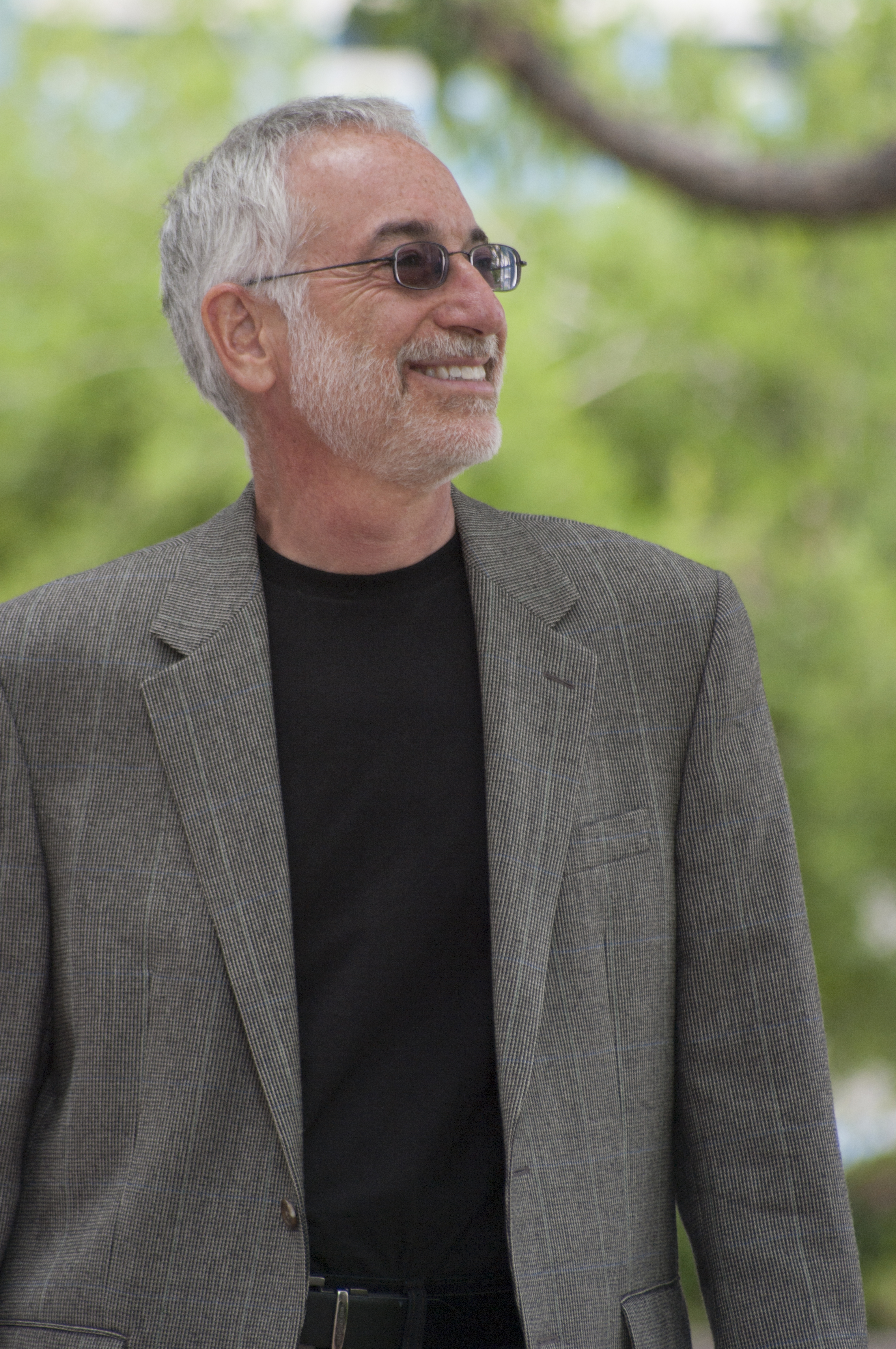 Mark David Gerson, author/creator of The Q'ntana Trilogy, Acts of Surrender: A Writer's Memoir, The Voice of the Muse: Answering the Call to Write and more.